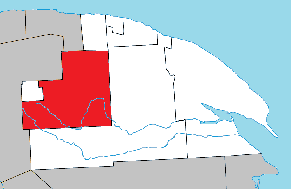 Location of Collines-du-Basque, Quebec within La Côte-de-Gaspé Regional County Municipality.